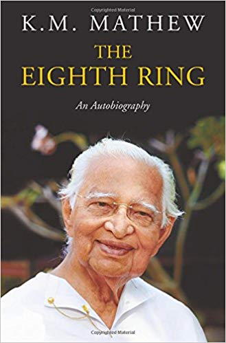 Cover page of Eighth Ring an autobiography of K M Mathew